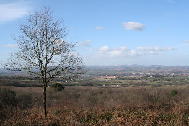 Wellington Without: north from Quarts Moor. Quarts Moor is a National Trust estate to the east of the Wellington Monument. Looking north towards the town of Wellington